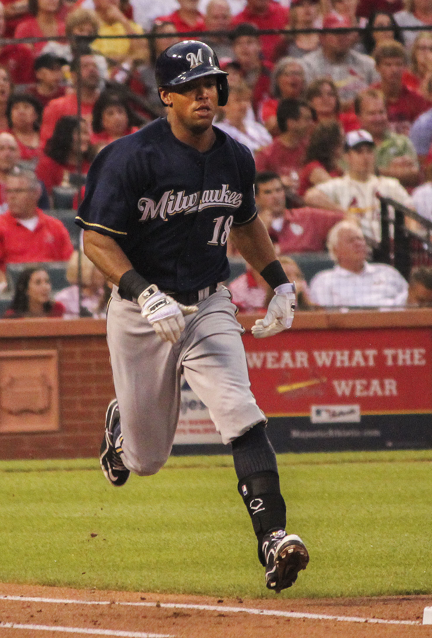 Khris Davis, Milwaukee Brewers player